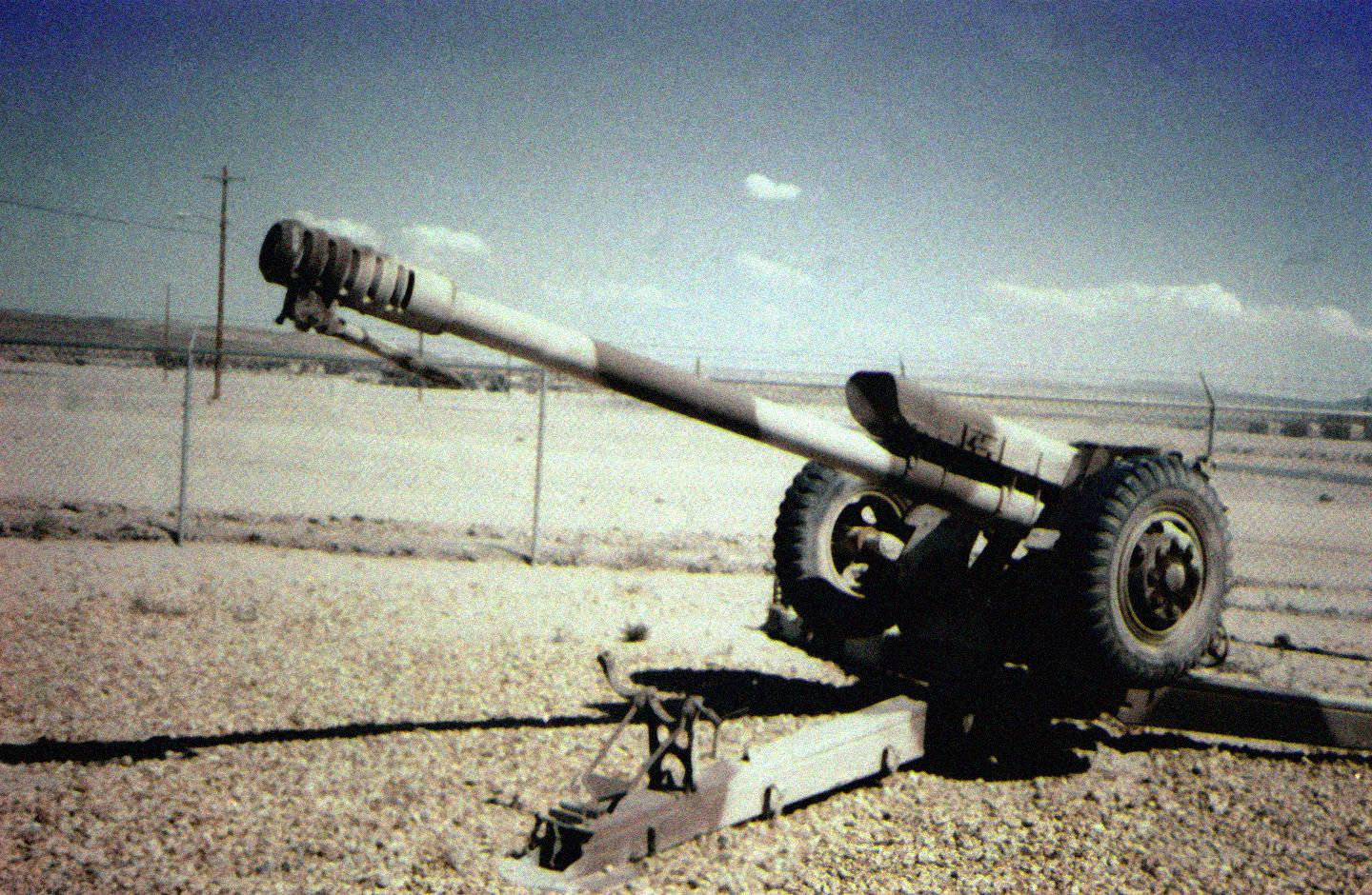 Right front view, on display, Soviet D-30 122mm Howitzer.